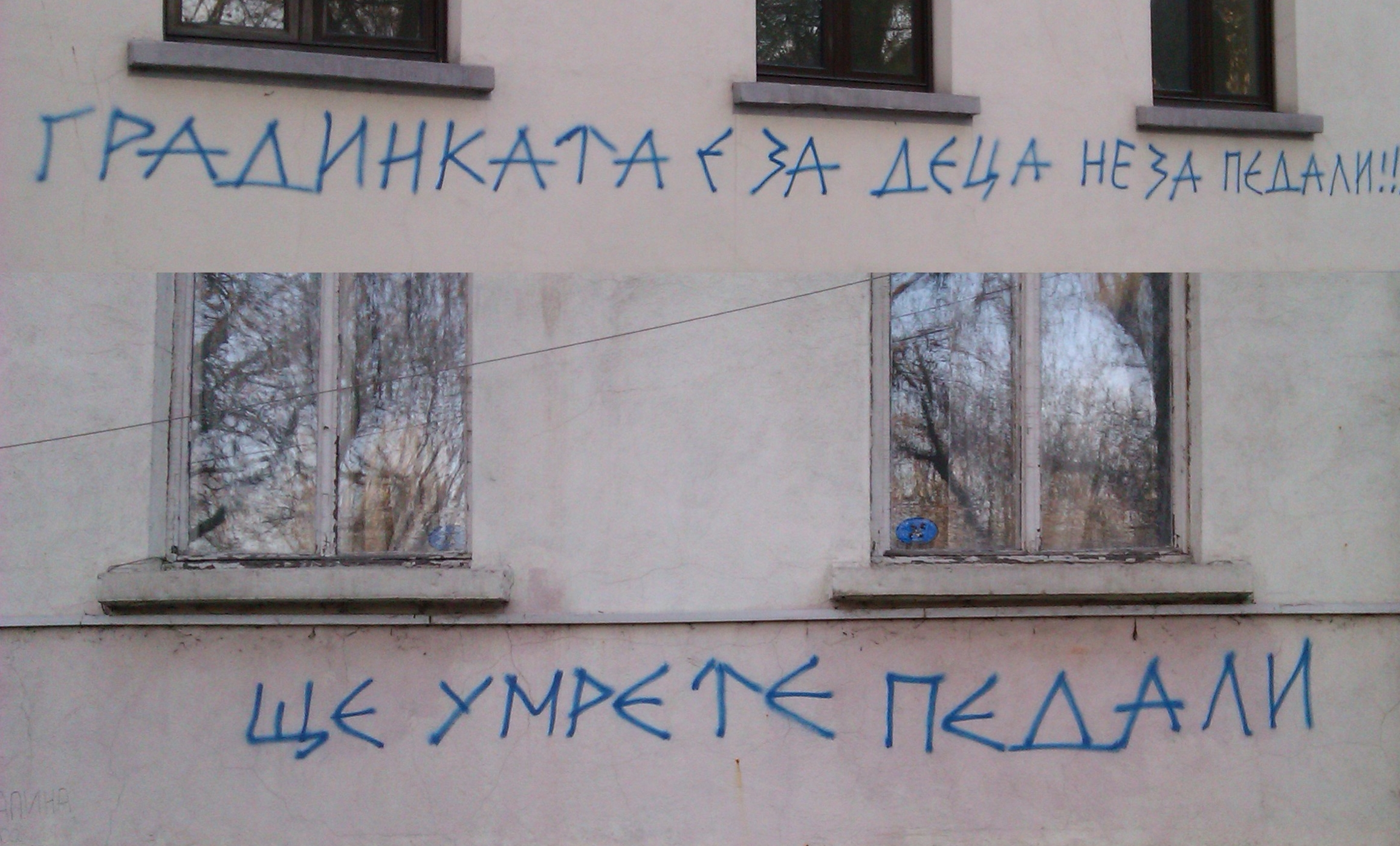 Homophobic graffiti on the wall of an official building at Algier Garden in Sofia, at blvd. Hristo Botev, near the Central Railway Station. Upper inscription: the garden is for children, not for f*ggots. Lower inscription: you are going to die, f*ggots.